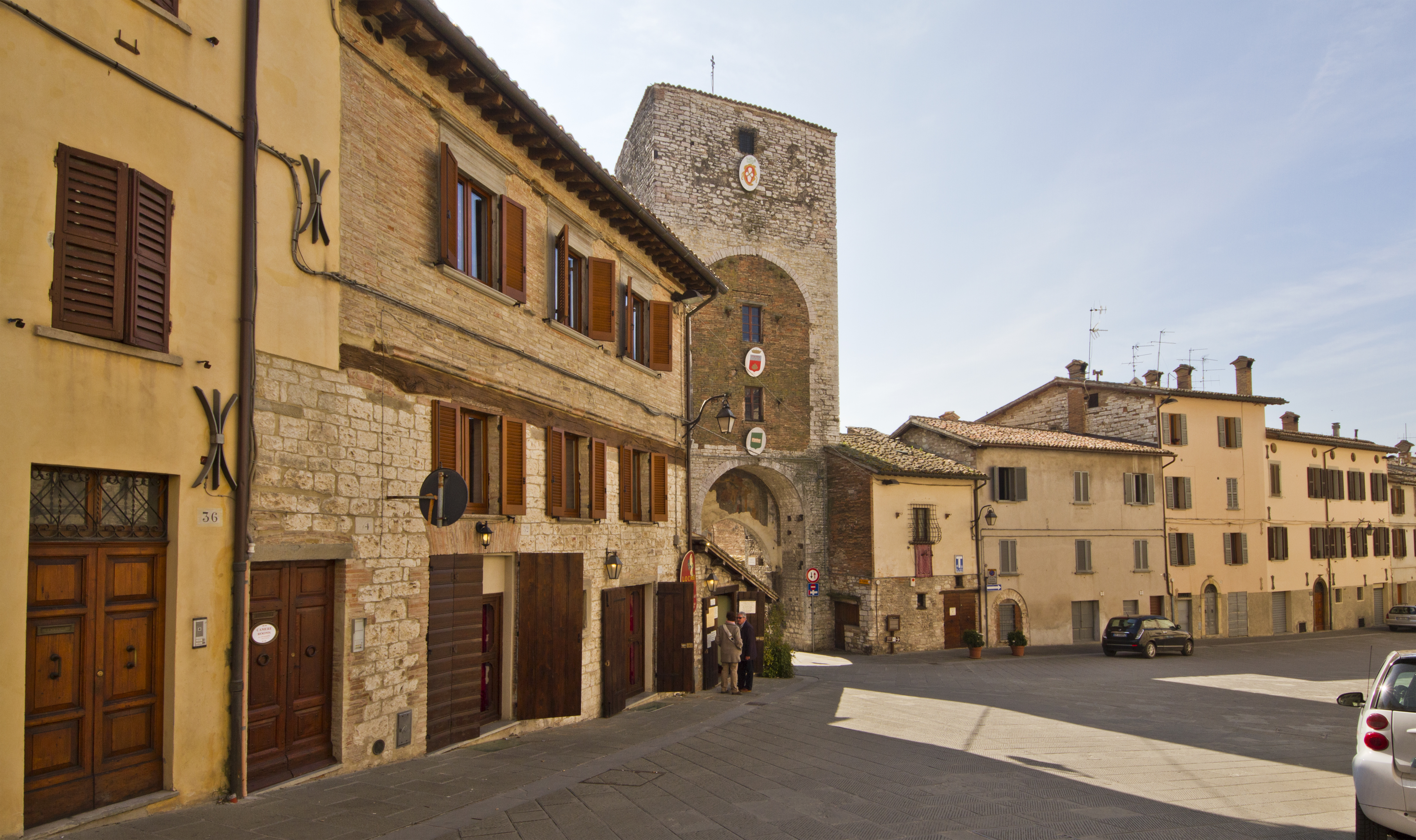 06024 Gubbio, Province of Perugia, Italy